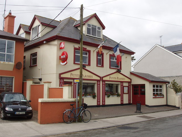 Petits Plaisirs café, Rosslare I stopped for a late lunch on my bike ride and was surprised to find I was eating French pastries and a Croque Madame - and they were very good.